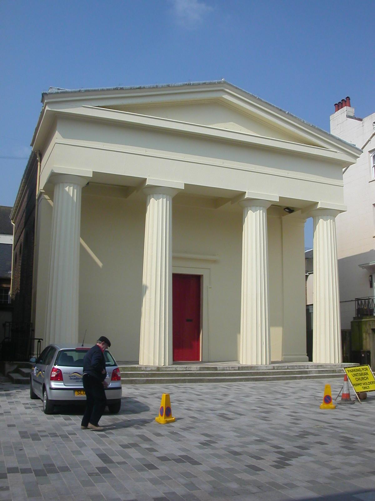 Unitarian Chapel, New Road, Brighton. Photographed on 31st March 2007.